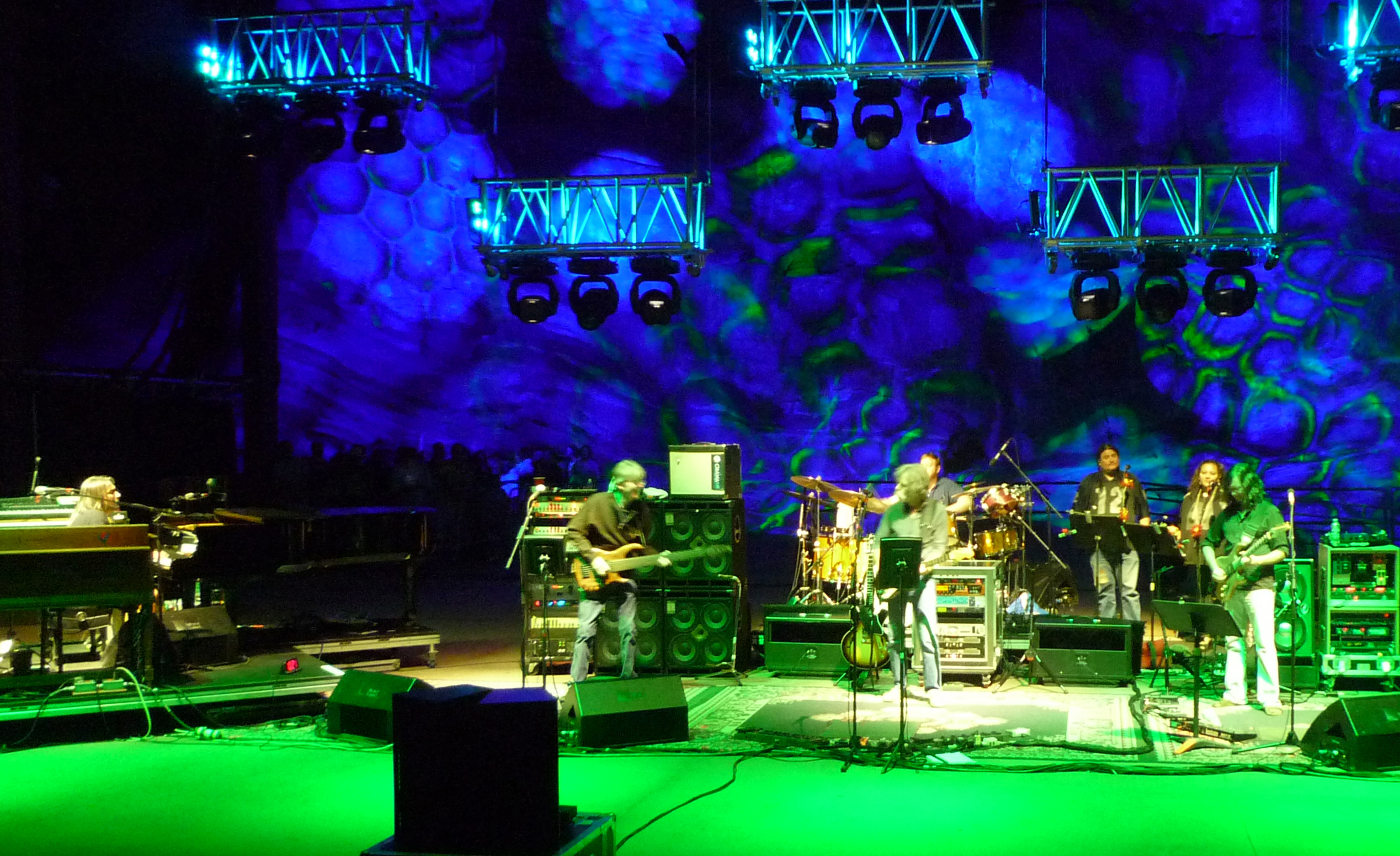 Furthur performing at Red Rocks Amphitheatre in Morrison, CO on September 25, 2010